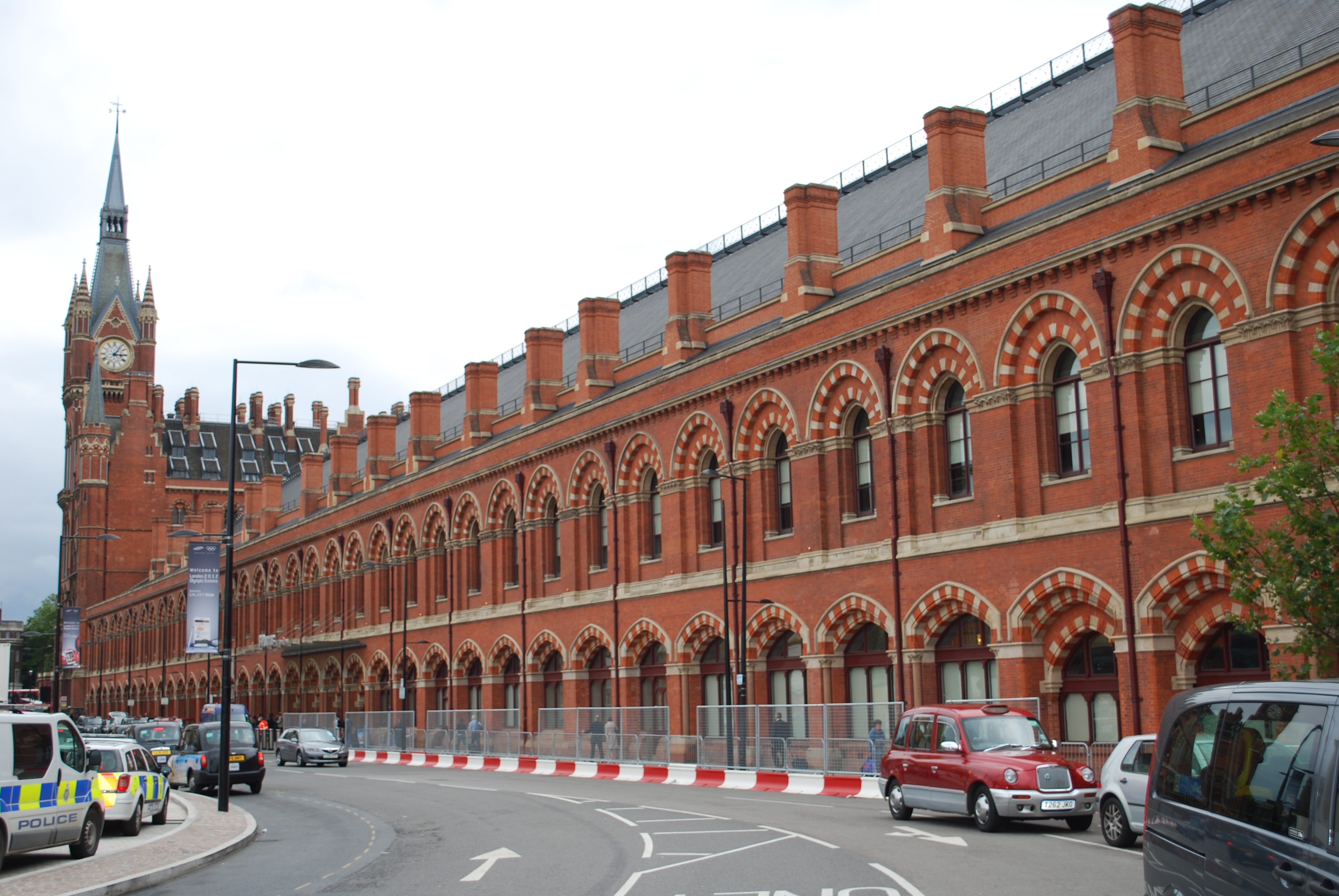 The side elevation of St Pancras, 09/12.